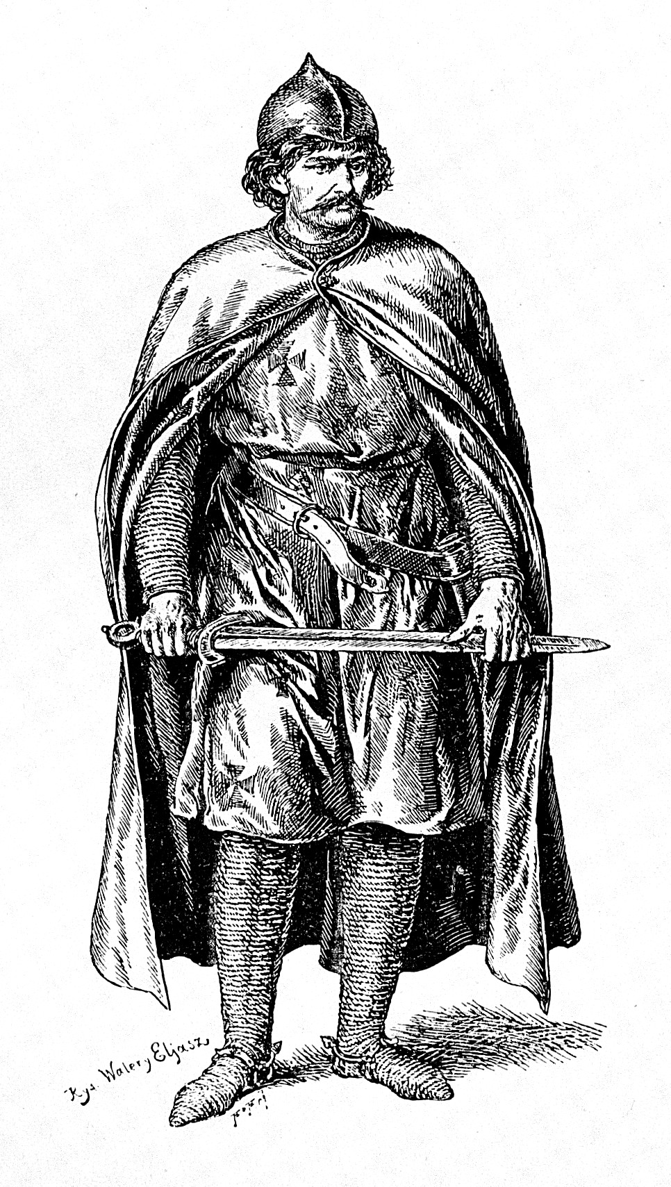 Vladislaus II, Duke of Poland